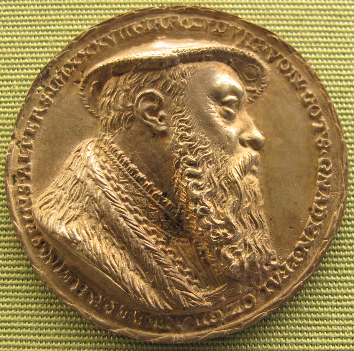 Matthes gebel, ludwig X, duca di baviera-landshut, 1535